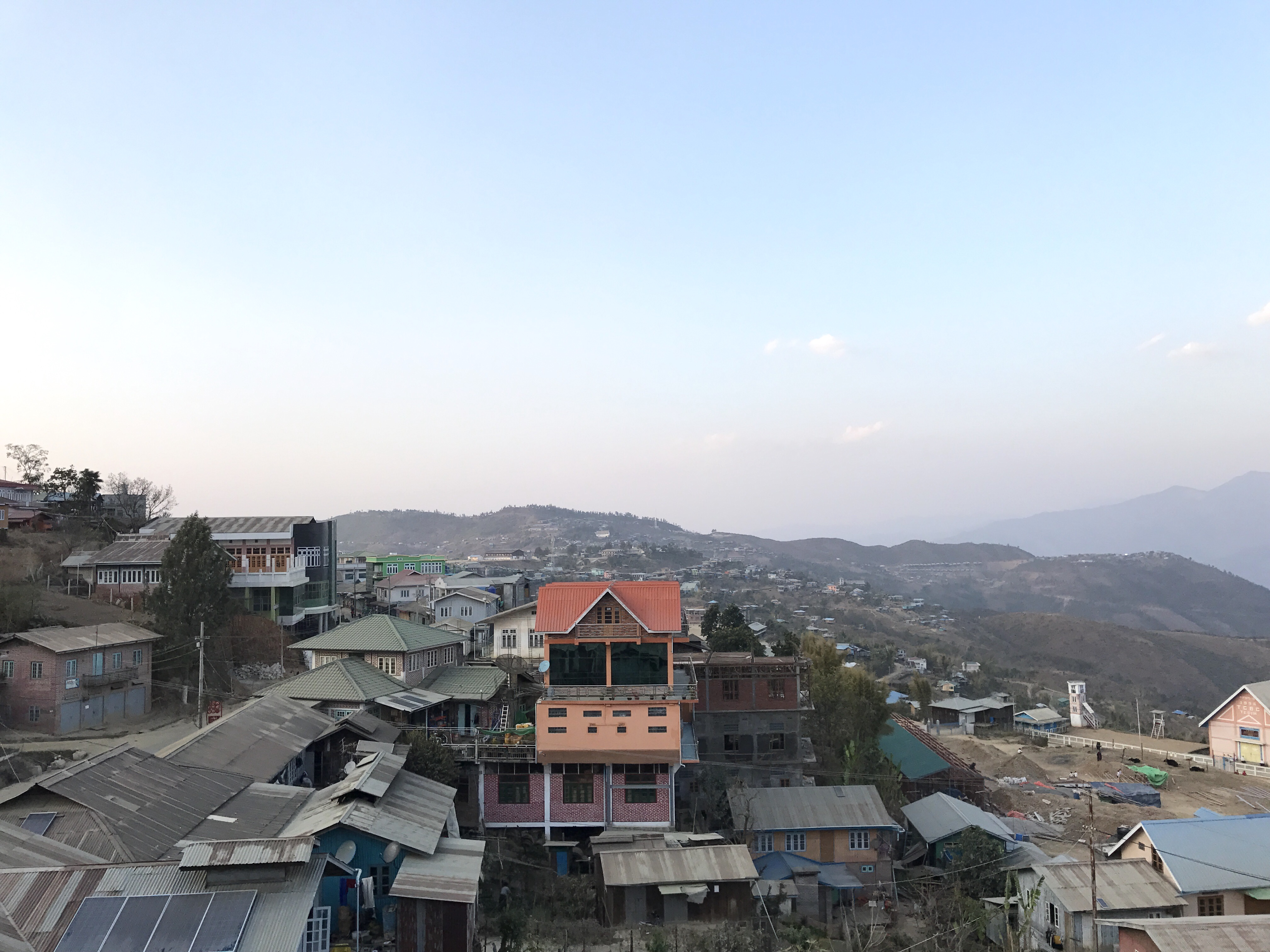 Tedim as seen from South.